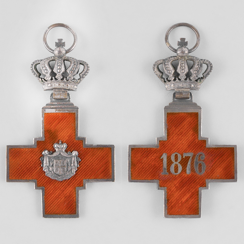 Cross of the Serbian Red Cross Society, Principality of Serbia